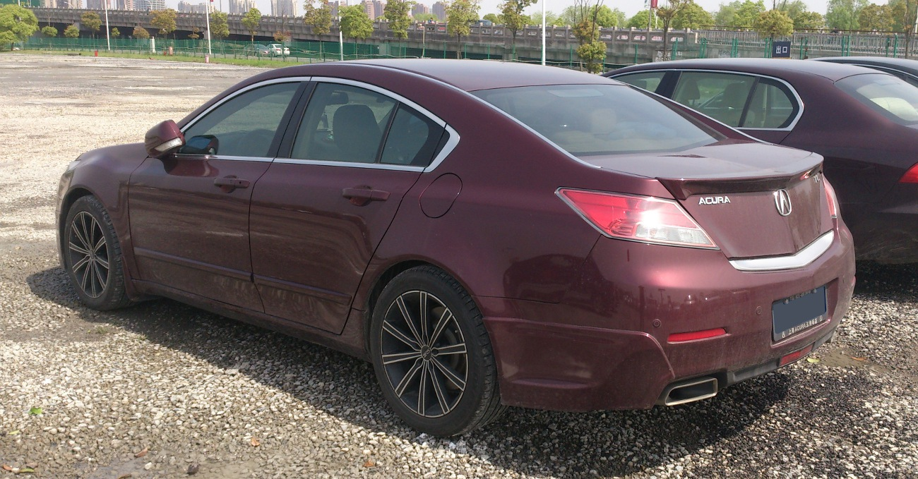 Acura TL UA8-9 facelift photographed in Anting, Shanghai municipality, China.